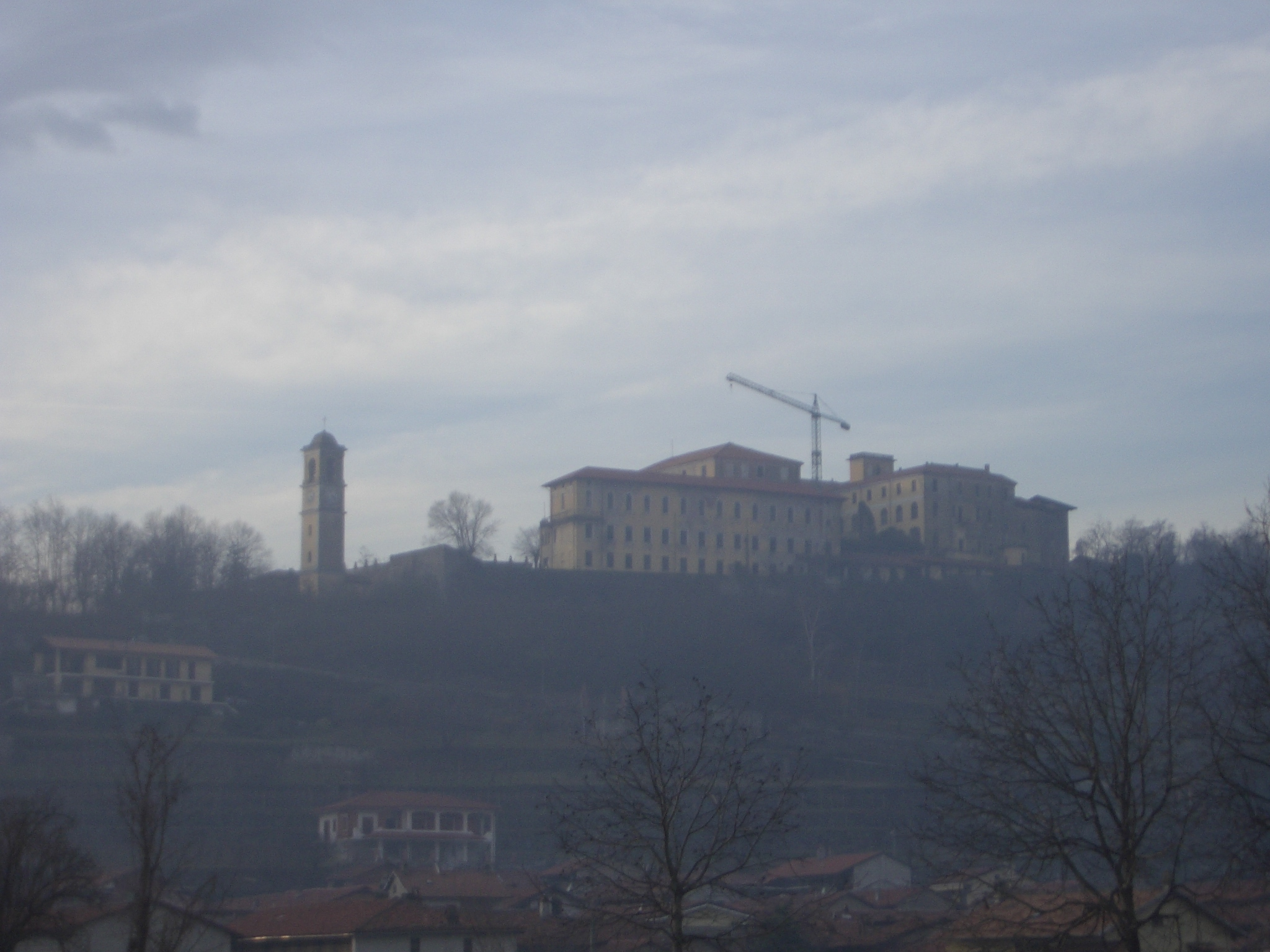 The castle, XVIII century, Bollengo, Turin, Italy